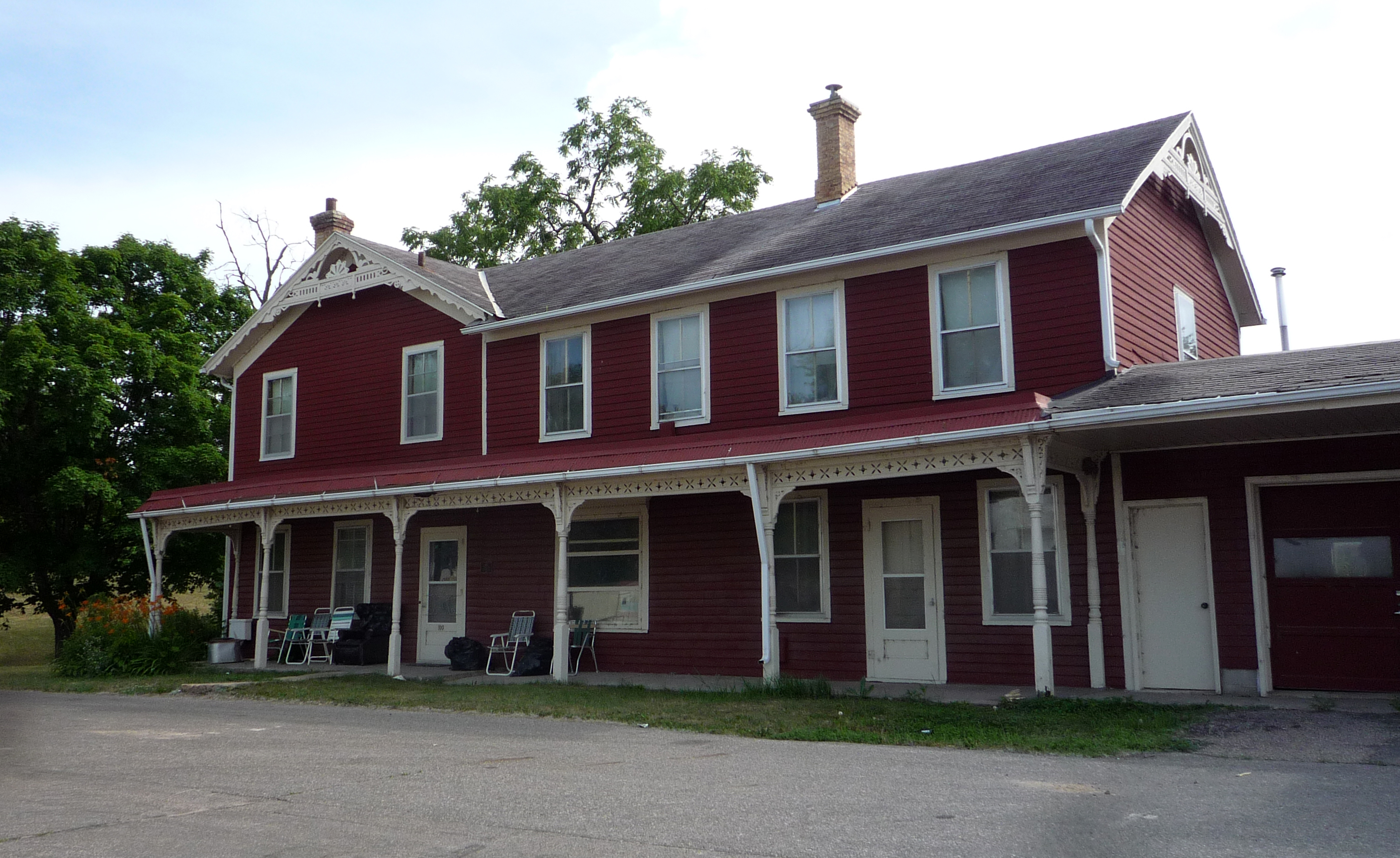 Temperance Hotel (1857), part of the Carver Historic District on the NRHP, Carver, Minnesota, USA.